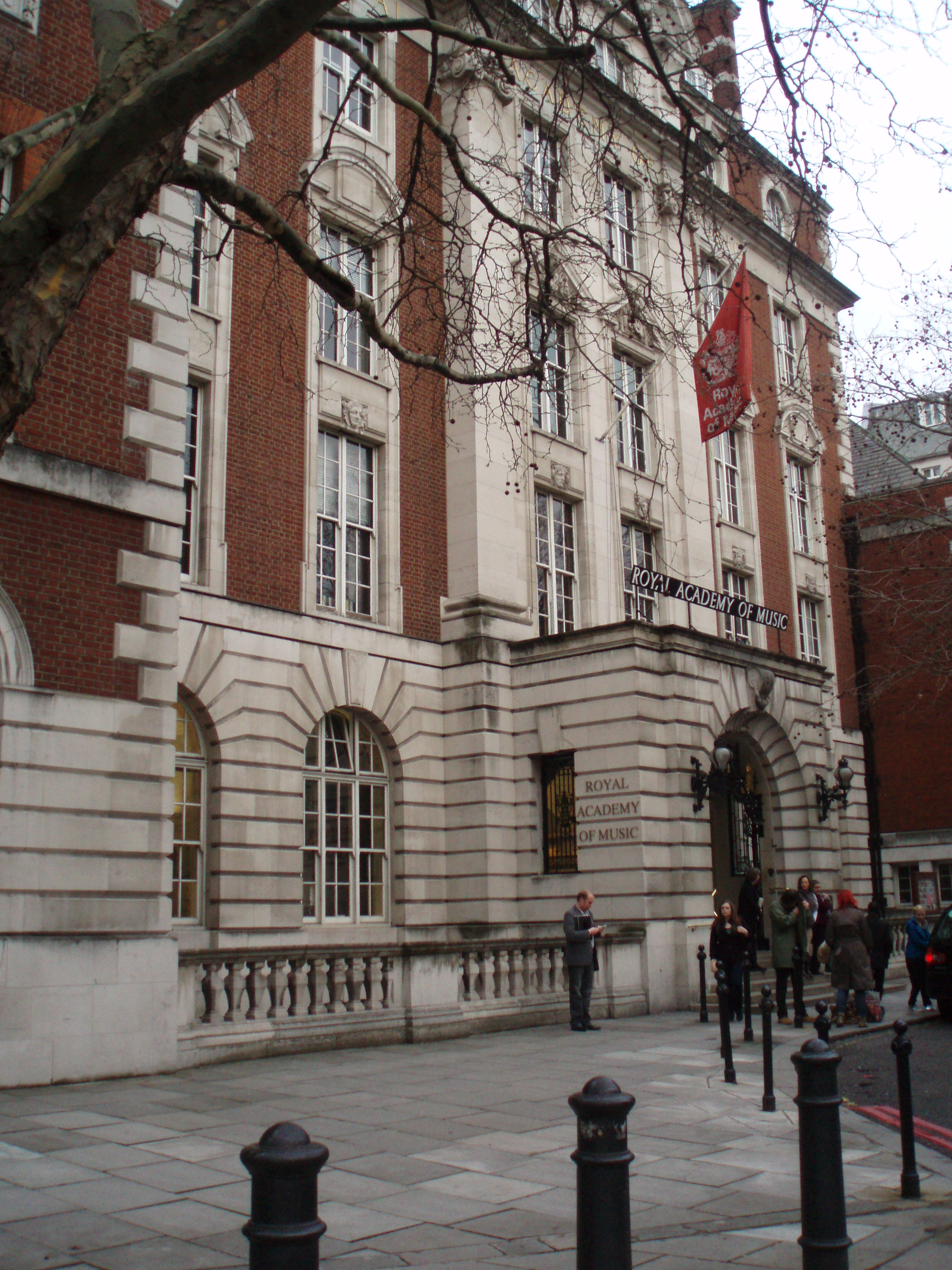 Royal Academy of Music